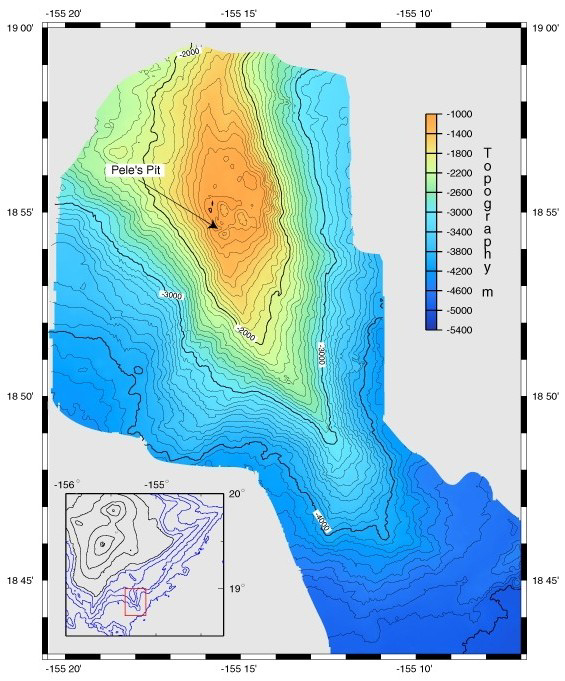 bathemetric Map of Loihi Seamount